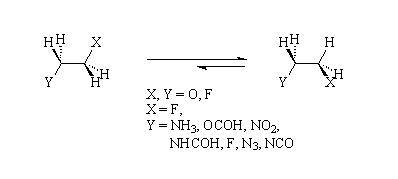 Gauche effect or fluorine gauche effect